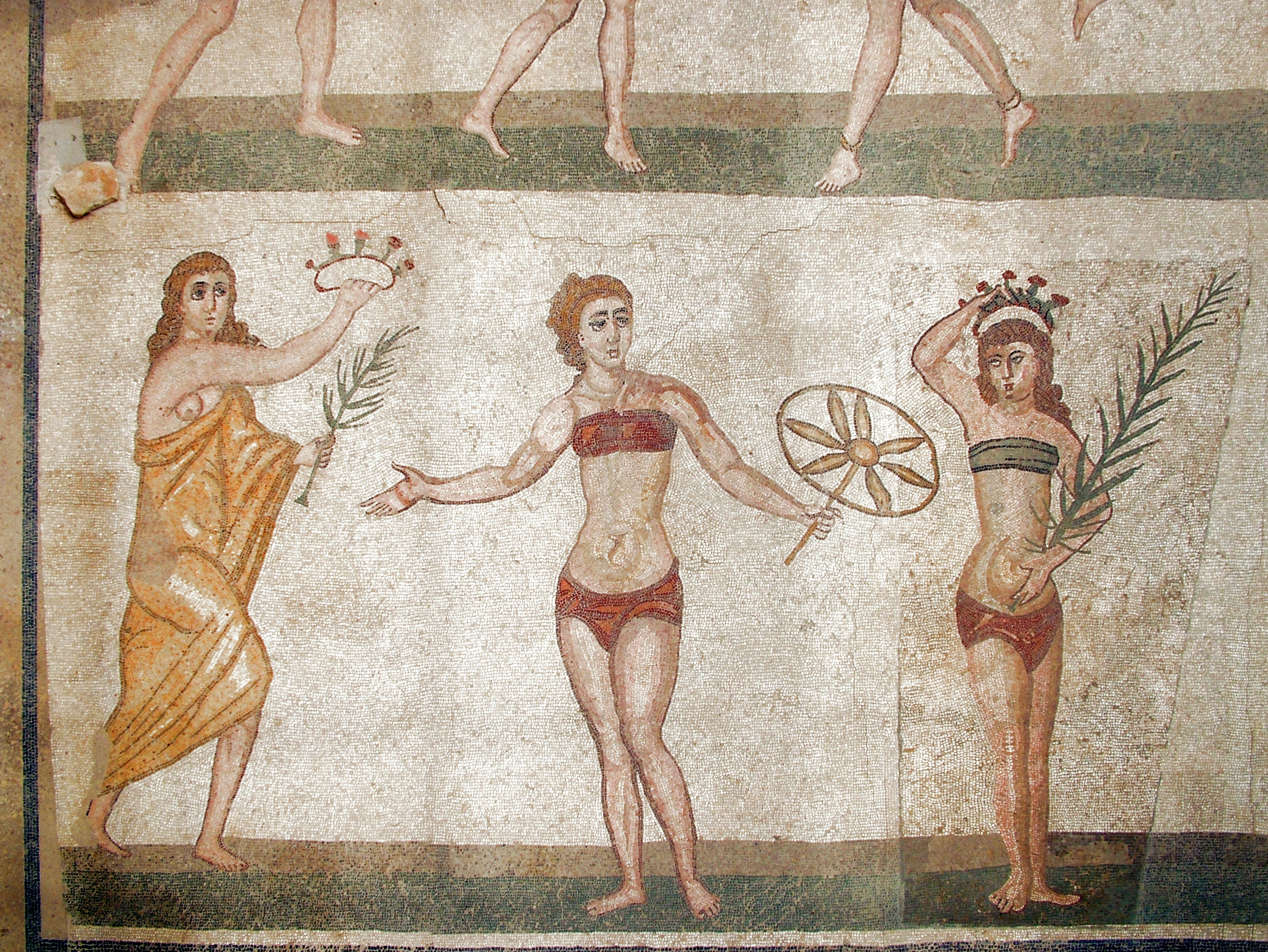 Detail of the "bikini girls" mosaic, found by archaeological excavation of the ancient Roman villa del Casale near Piazza Armerina in Sicily. At right, woman with palm of victory and wreath. At left, a non-bikini-clad woman rushes in with wreath and palm-leaf to crown another victor (in an athletic competition).